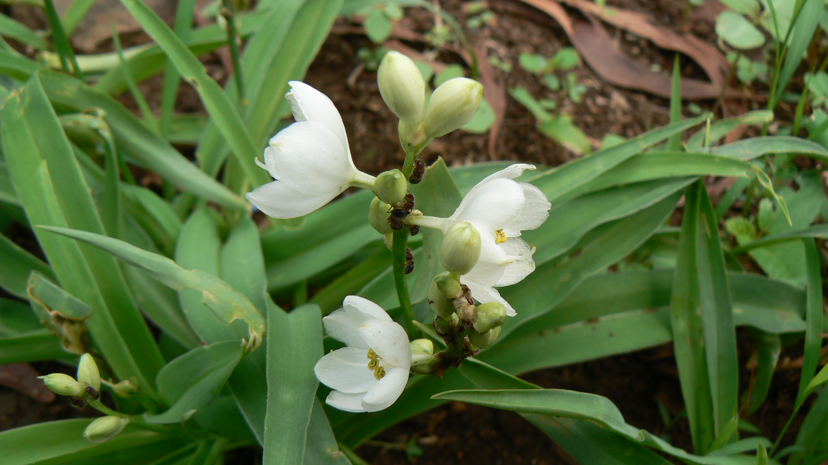 Liliaceae (lily family) » Chlorophytum tuberosum kloh-roh-FY-tum -- from the Greek chloros (green), and phyton (plant) too-ber-OH-sum OR tew-ber-OH-sum -- tuberous commonly known as: edible chlorophytum • Gujarati: સફેદ મૂસળી safed musali • Hindi: सफ़ेद मुसली safed musli • Marathi: कुळई kulai, सफेत मुसळी safet musli Native to: India References: Flowers of India • ENVIS - FRLHT • Flowers of Sahyadri by Shrikant Ingalhalikar